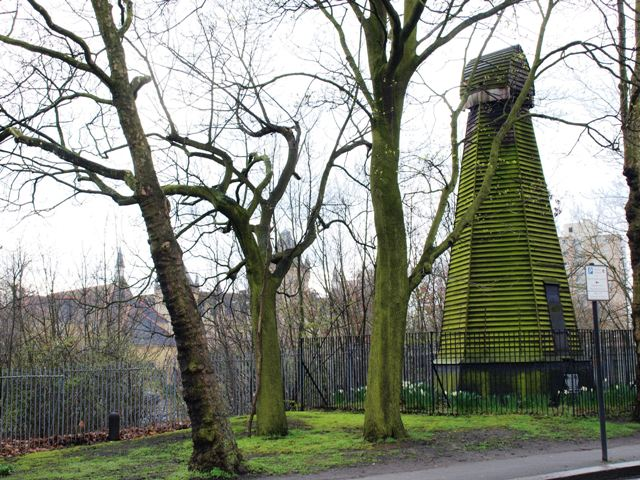 Remains of a Windmill on Wandsworth Common